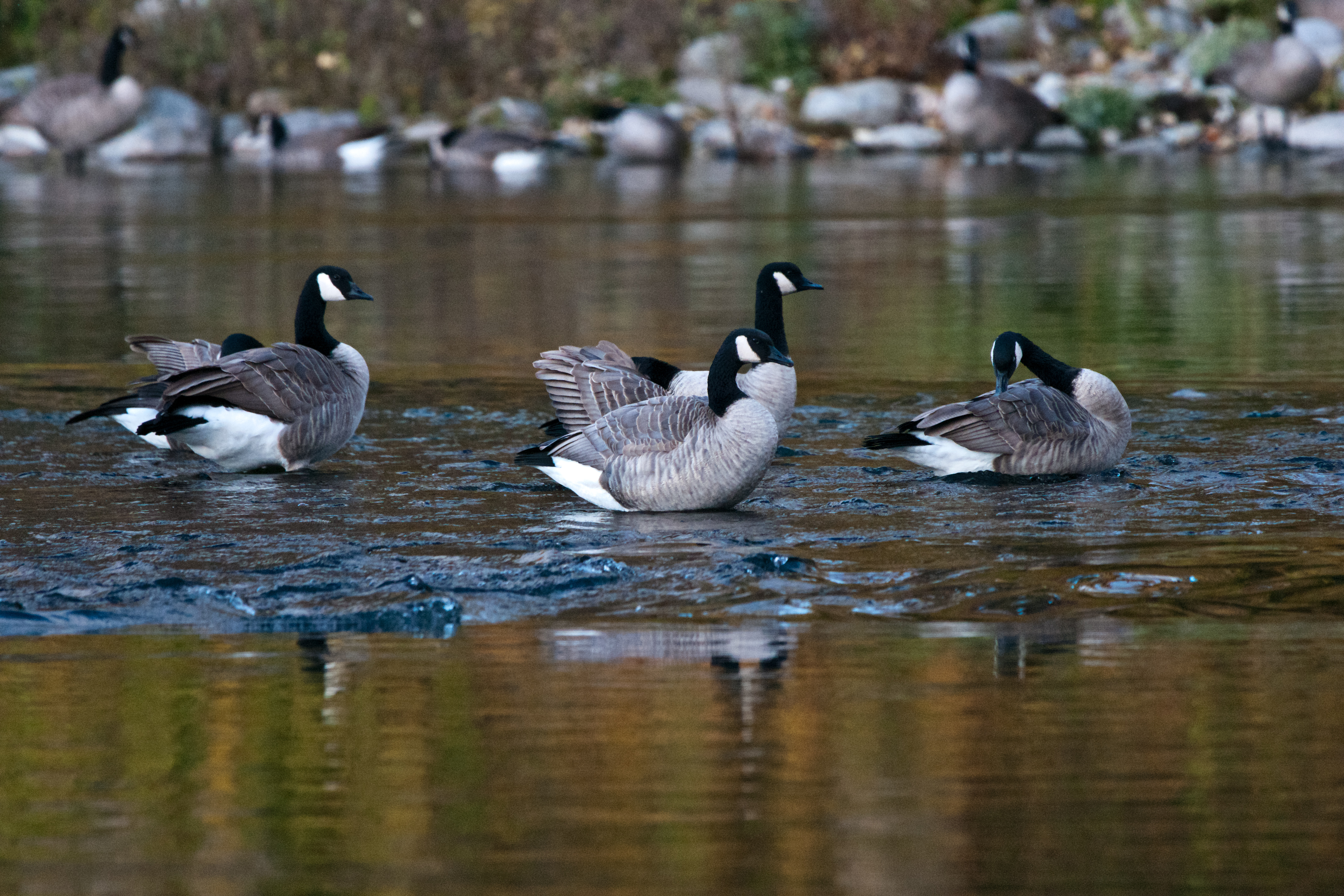 Geese are standing in Spokane River, near Spokane, Washington, USA